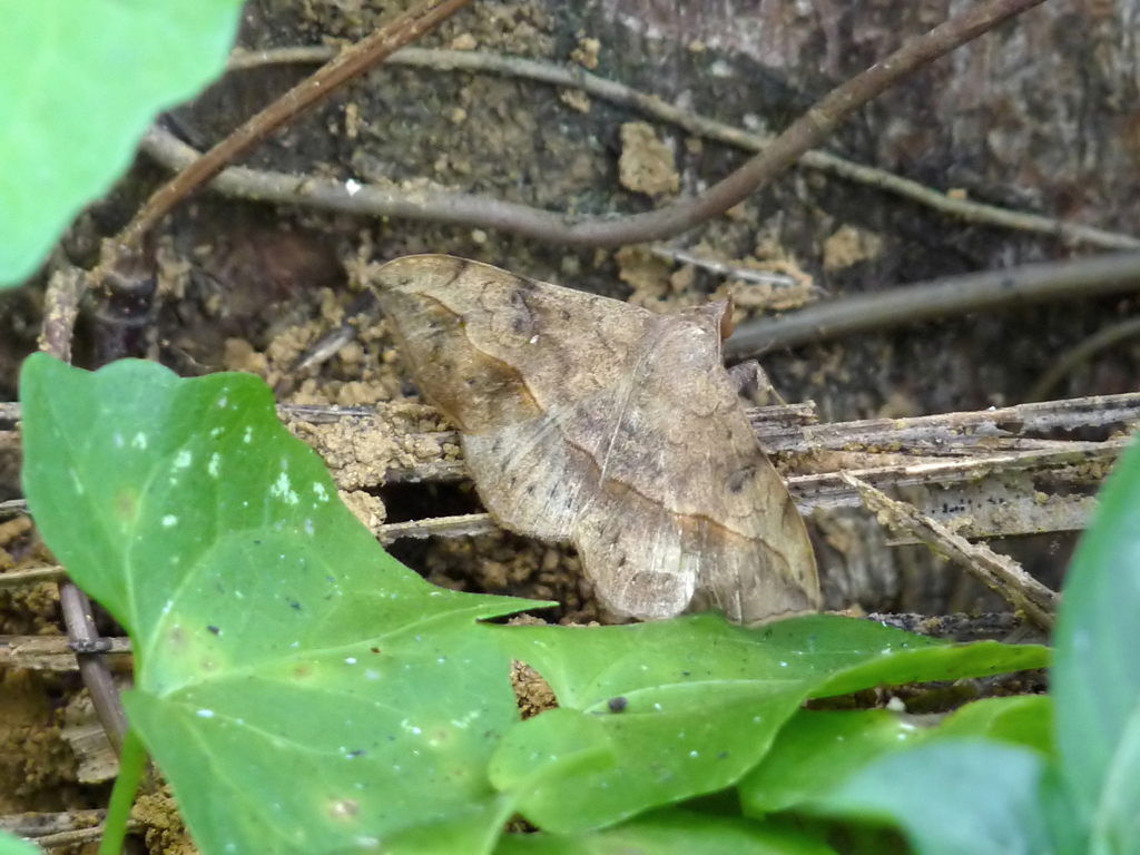 Anticarsia irrorata, Owl moth, [1] is a species of moth in the family Noctuidae. It is native to the Old World tropics. This moth is around 1.5 centimeters long. It is light brownish with darker areas distally. The forewing is marked with a diagonal line and a row of black dots. The hindwing has similar markings. The underside has lighter, brownish dots and a white spot. The larva is light green. It has a dorsal line which is dark green with a yellowish center, and wider, spotted lines on either side. The spiracles are white with black edges. It moves in a looping motion. ↑